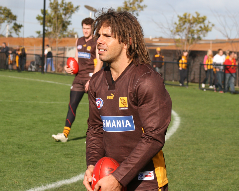 Chance Bateman at Waverley Park